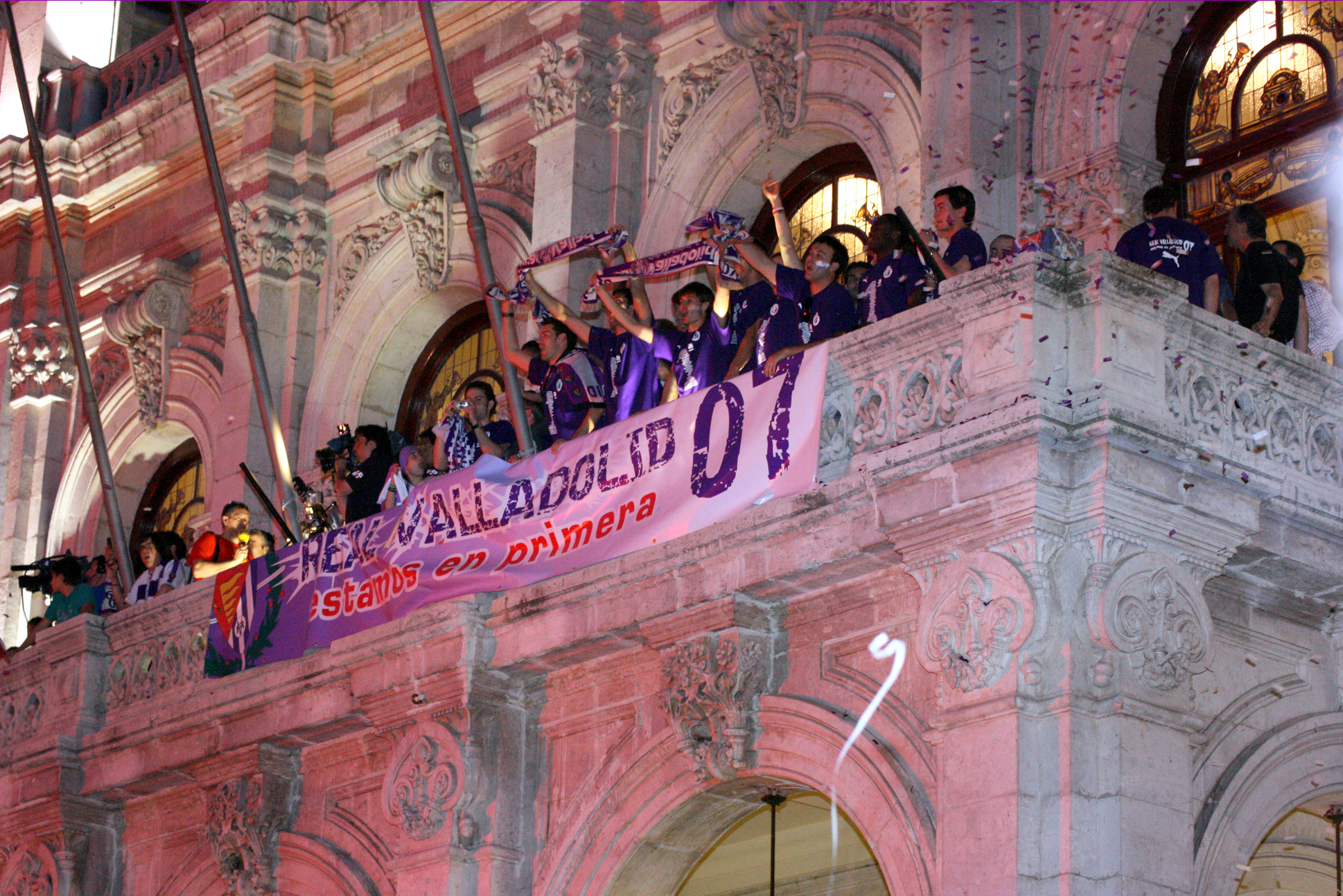 Real Valladolid players celebrating the 2007 promotion to La Liga in Plaza Mayor, Valladolid.